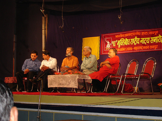 Organised by IPTA every year. The picture is taken during inauguration ceremony of Muktibodh Rashtriya Natya Samaroh year 2006